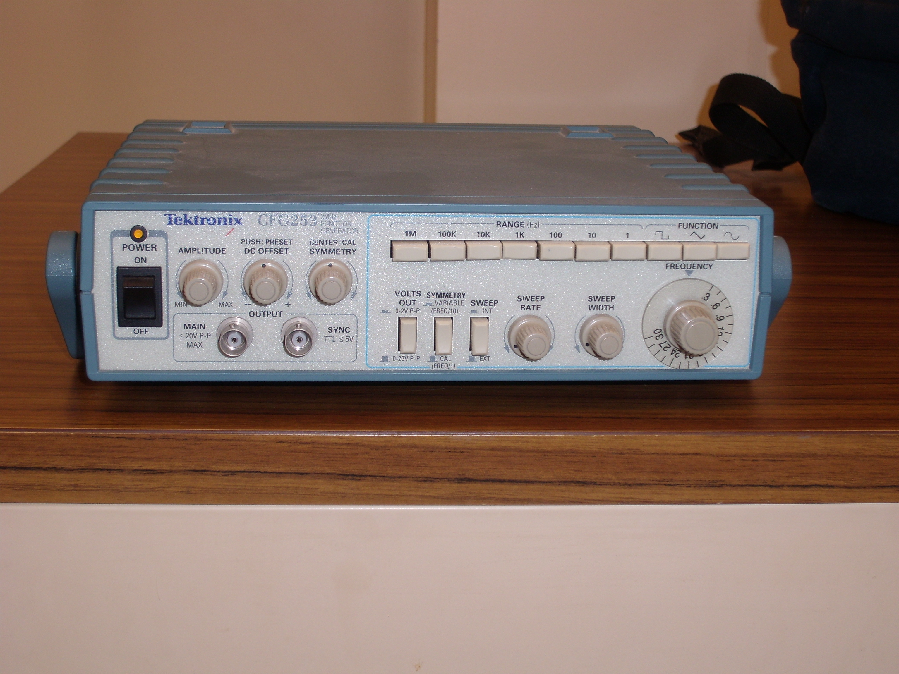 Tektronix CFG253 function generator front panel